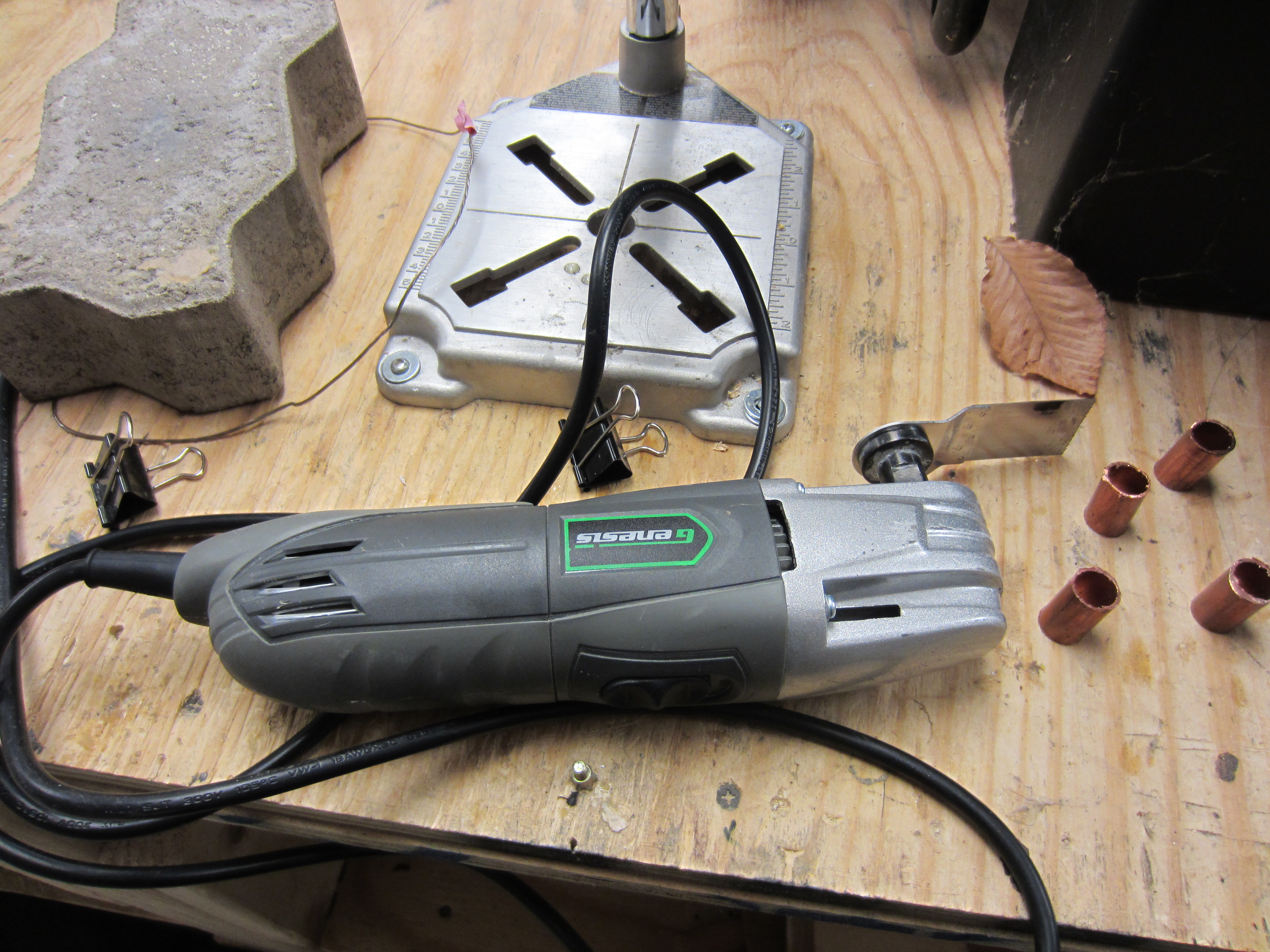 Used to cut 1" copper stand offs